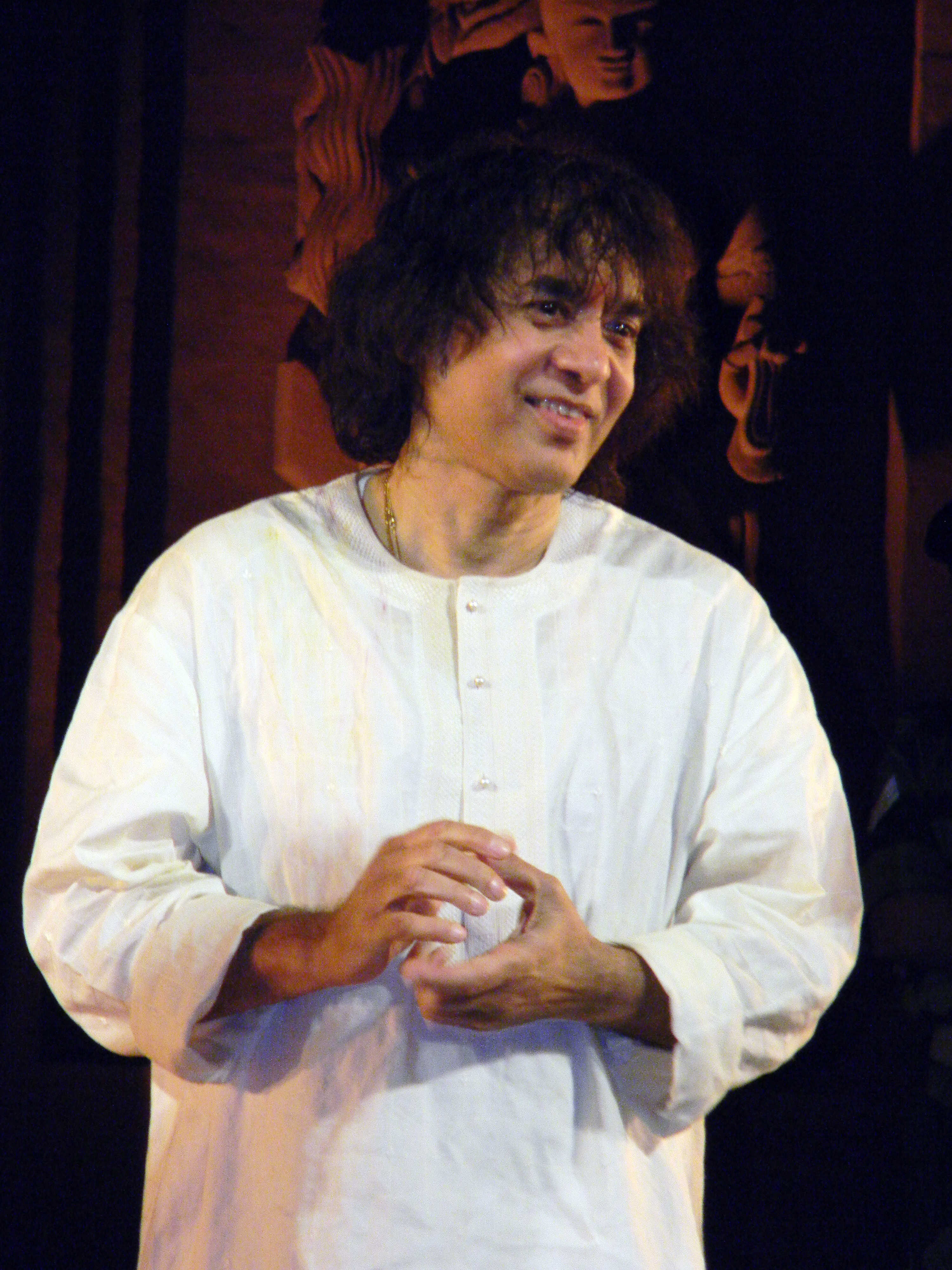 ଓଡ଼ିଆ: Ustad Zakir Hussain 1 This media file is uploaded with Odia loves Wikipedia